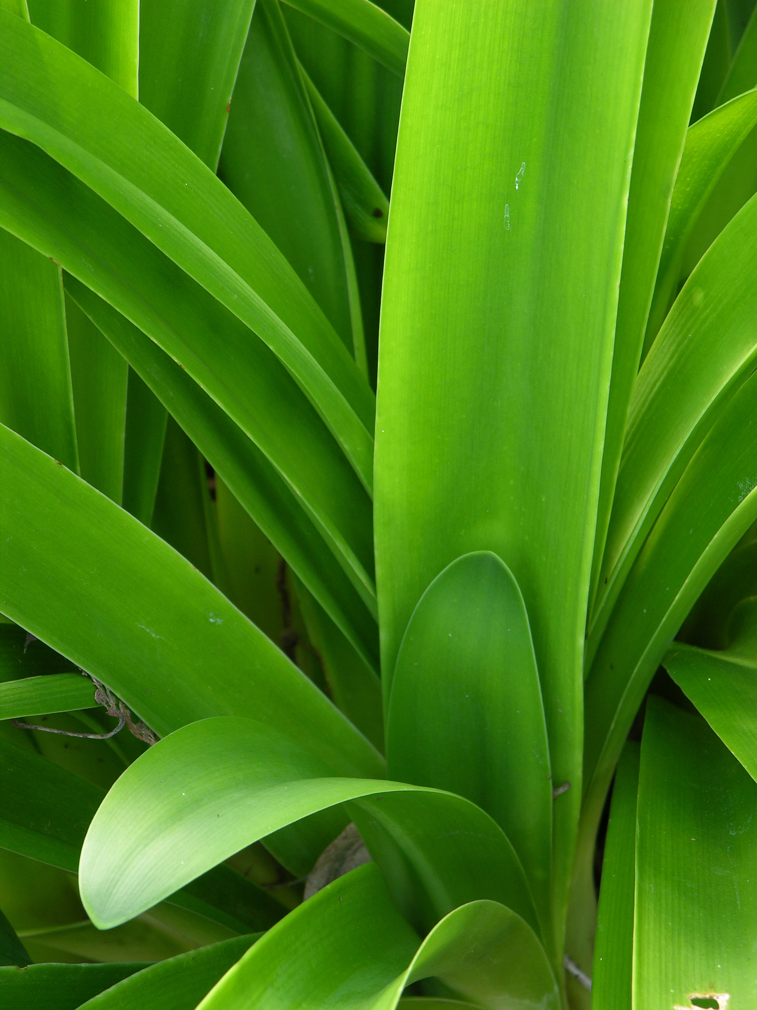 A picture of an unidentified Agapanthus plant. Photo taken at the Chanticleer Garden where it was identified.